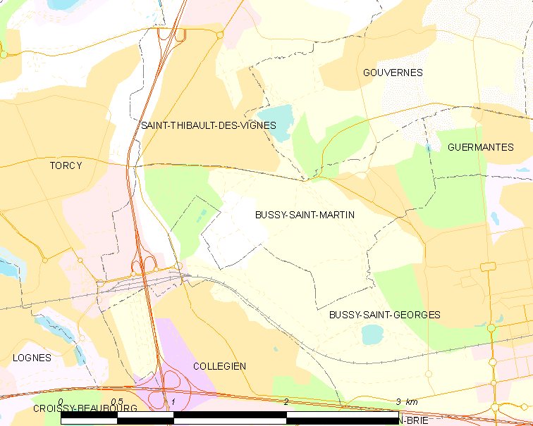 Map of French municipality Bussy-Saint-Martin